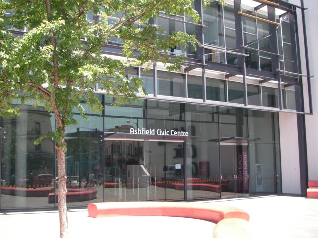 Ashfield Civic Centre, refurbished in 2011, close up of new entrance